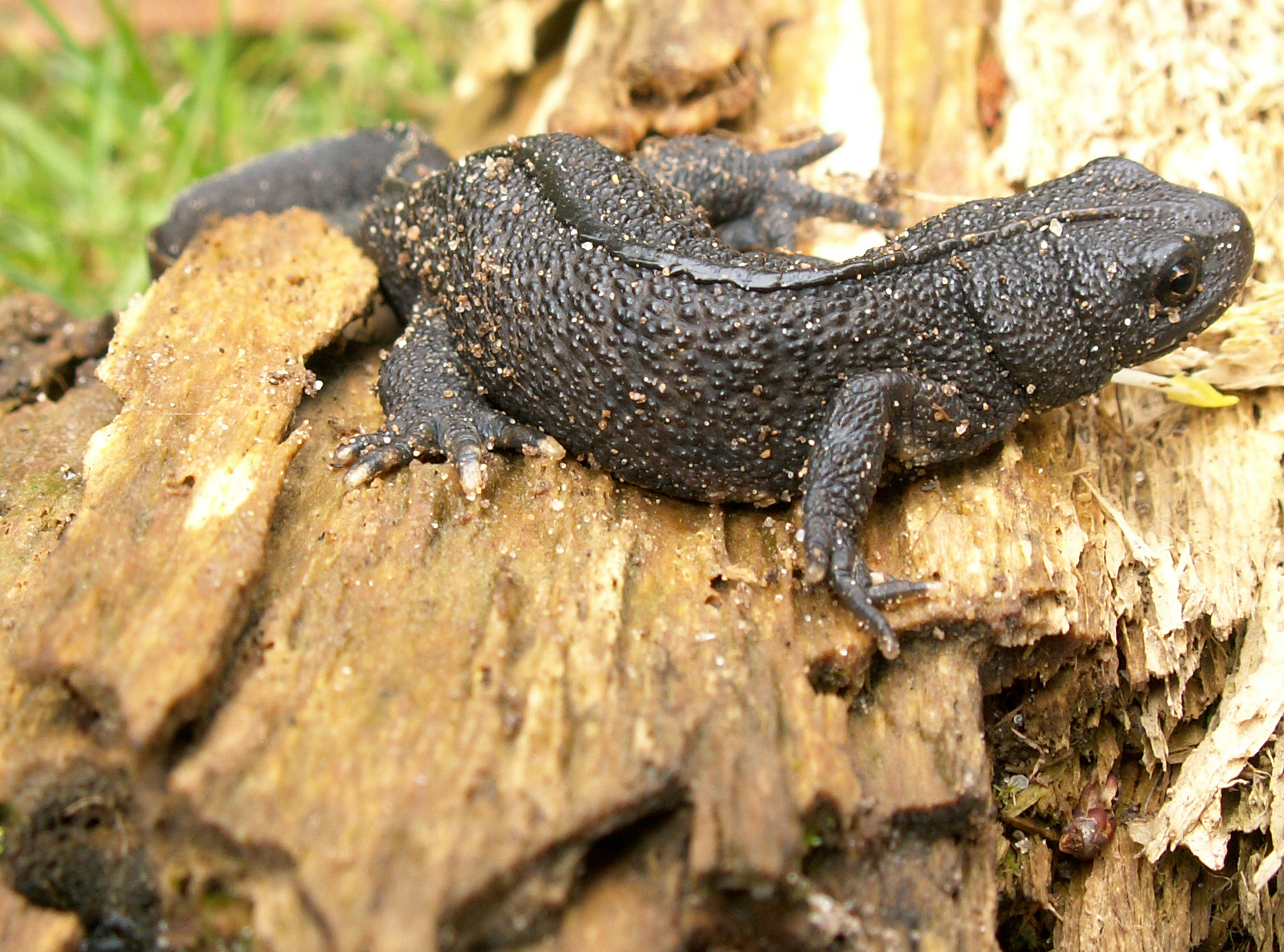 male land phase Triturus carnifex from North Veluwe, the Netherlands. Triturus carnifex lacks the multiple white spots on the sides, seen in Triturus cristatus.